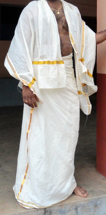 A Man wearing traditional Kerala dress called Mundu & Mel Mundu